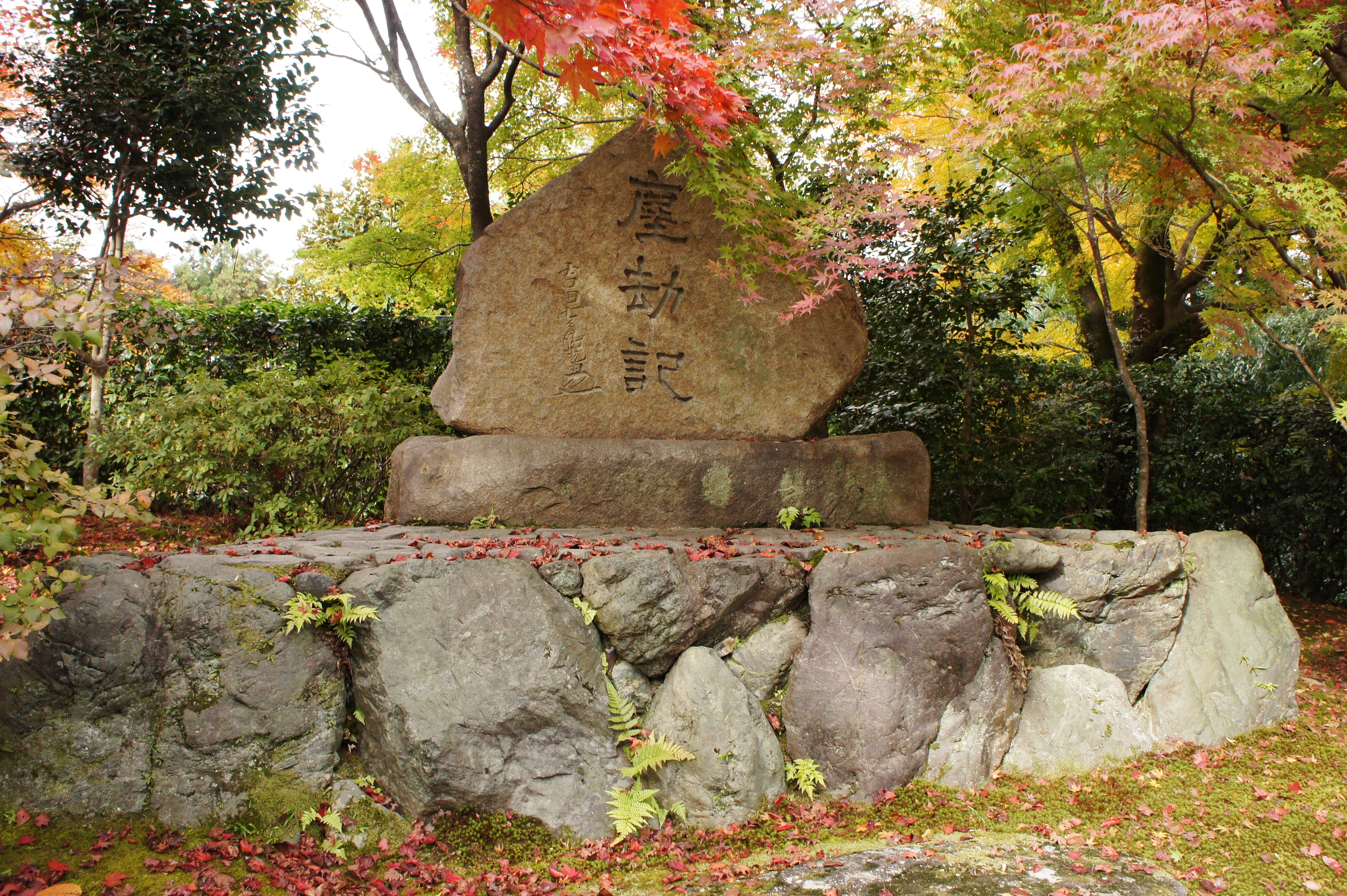 Jojakko-ji in Sagano, Kyoto, Kyoto prefecture, Japan